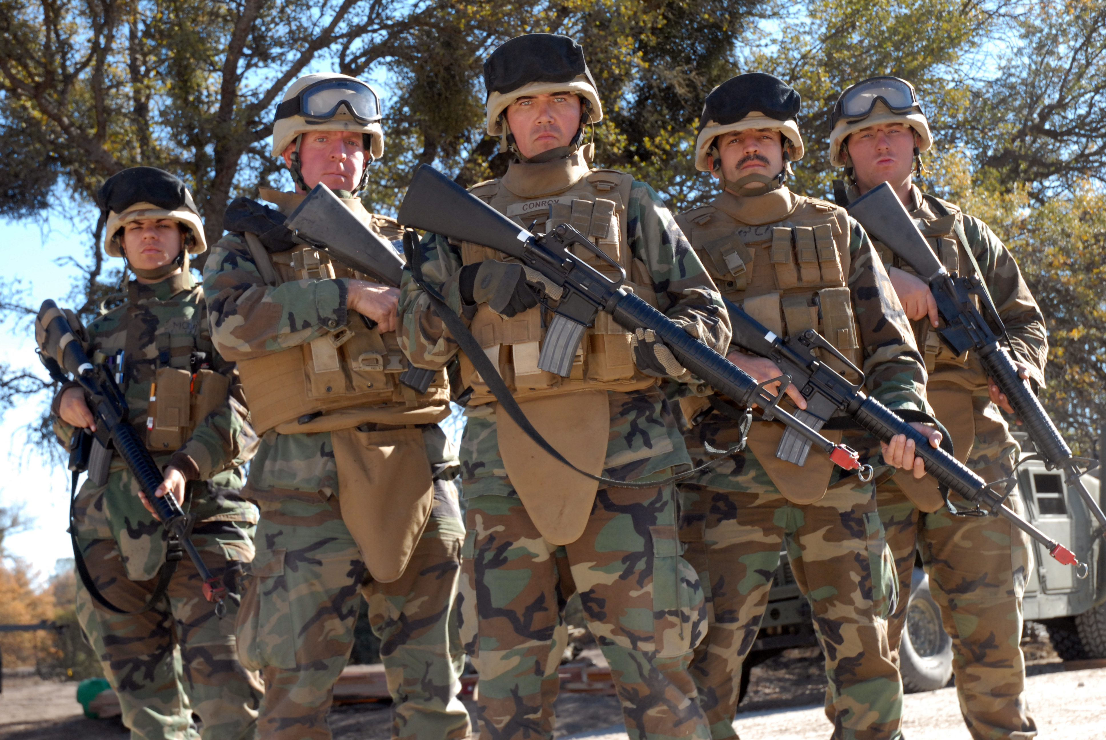 FORT HUNTER LIGGETT, Calif. (Dec. 11, 2007) Seabees attached to Naval Mobile Construction Battalion (NMCB) 17's Convoy Security Element (CSE) stand ready to defend. The CSE team is tasked with the safe movement of convoys to and from their missions. NMCB-17 and other units are taking part in joint three-week field exercise known as "Operation Bearing Duel." U.S. Navy photo by Mass Communication Specialist 2nd Class Kenneth W. Robinson (RELEASED)